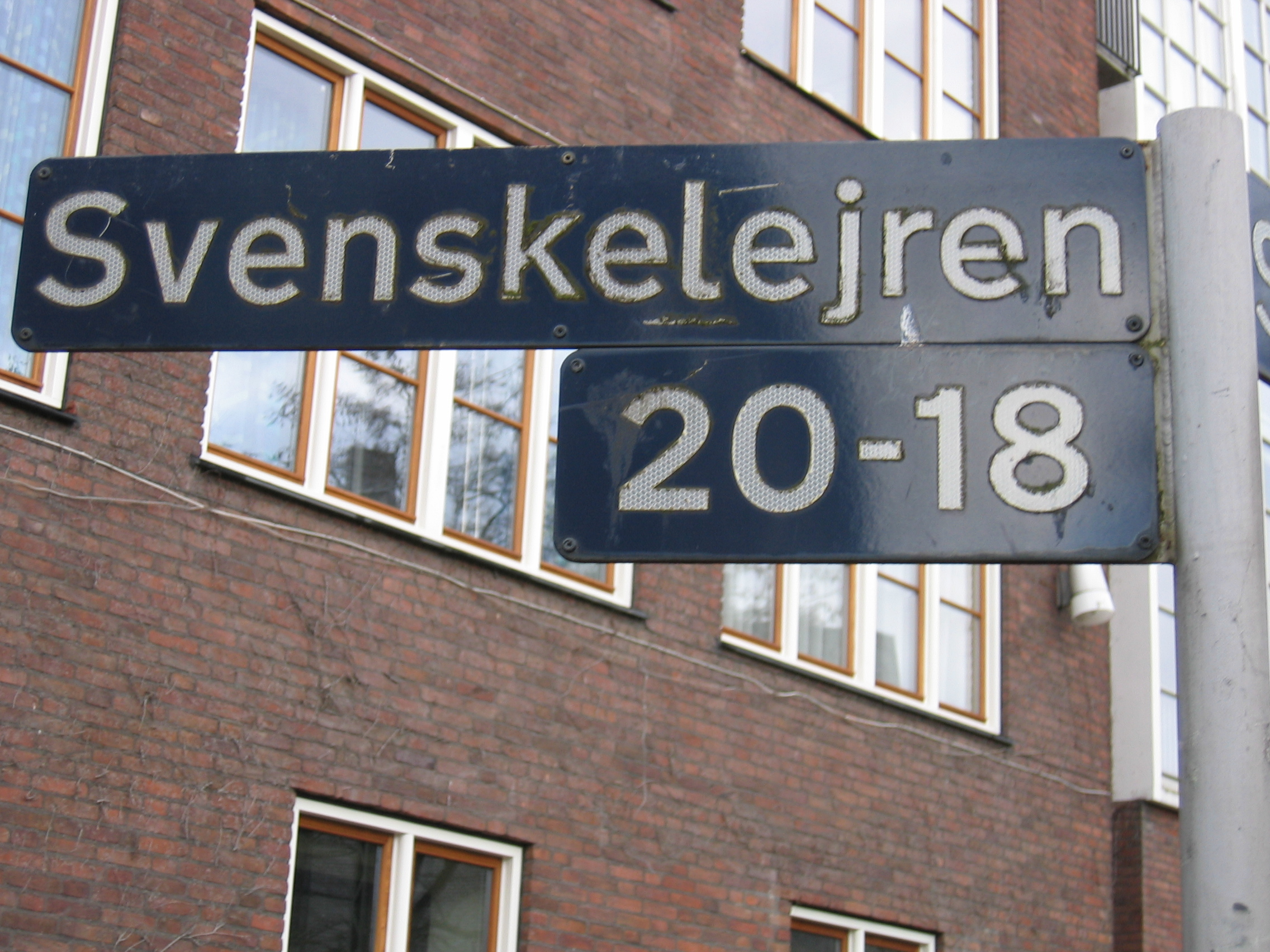 Svenskelejren (Swedish camp) named after the fortified city built by Sweden during the war of 1658-60